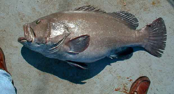 Warsaw grouper (Hyporthodus nigritus)